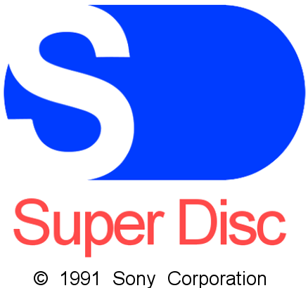 Recreation of a Super Disc logo used at some point in development.